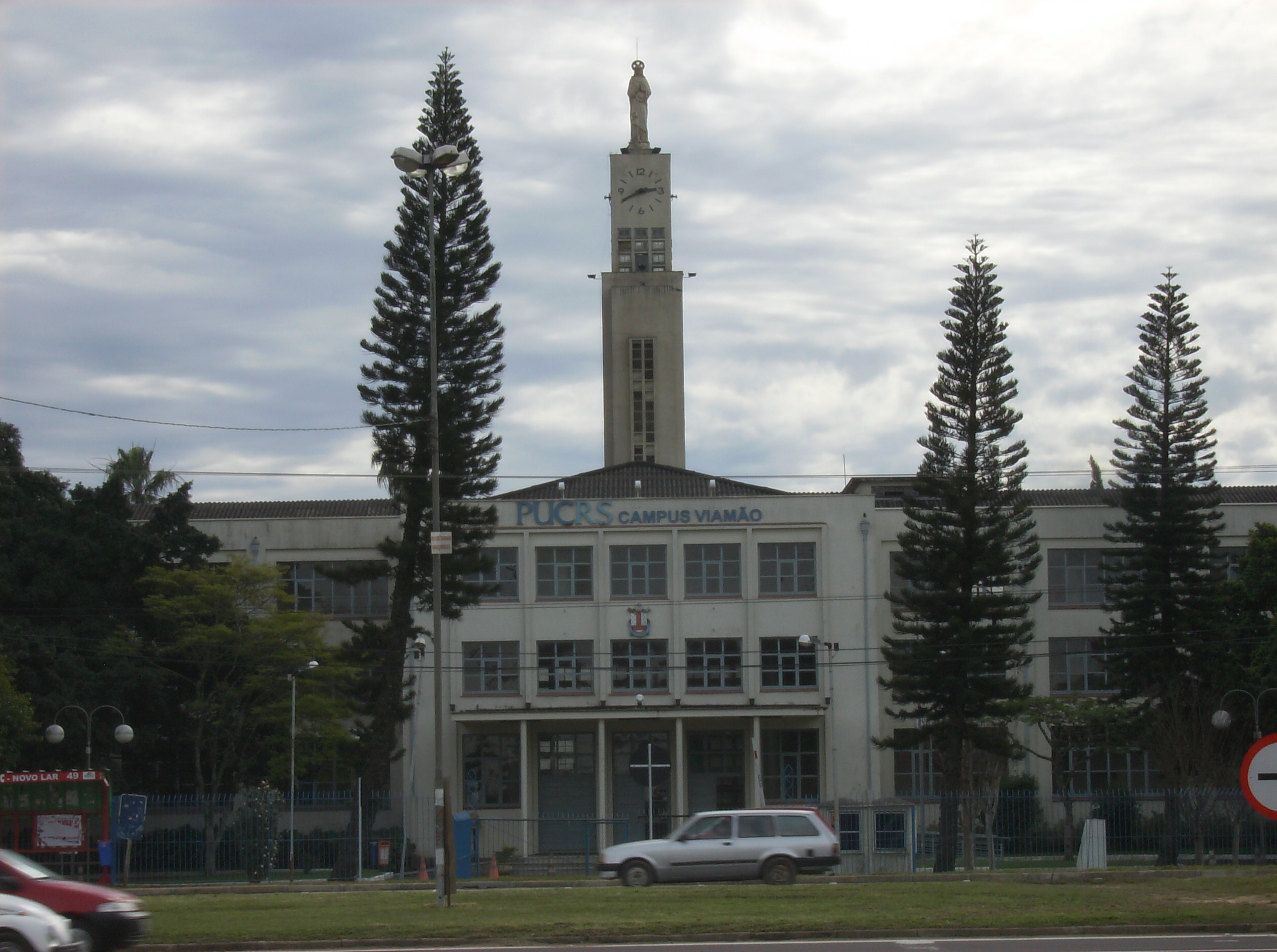 Viamão Major Seminary and College of Philosophy. Currently Campus Viamão PUCRS.